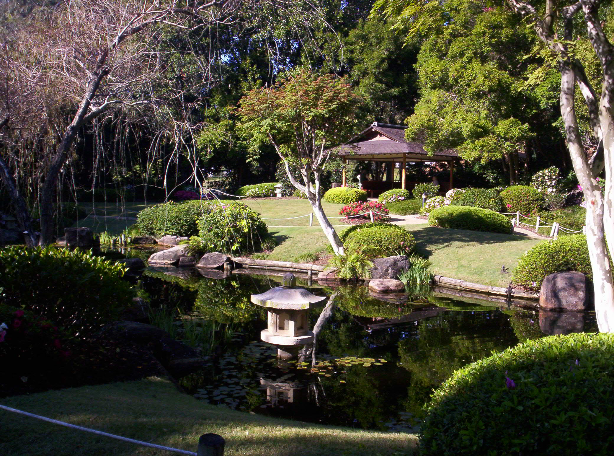 Japanese Garden — showing lake